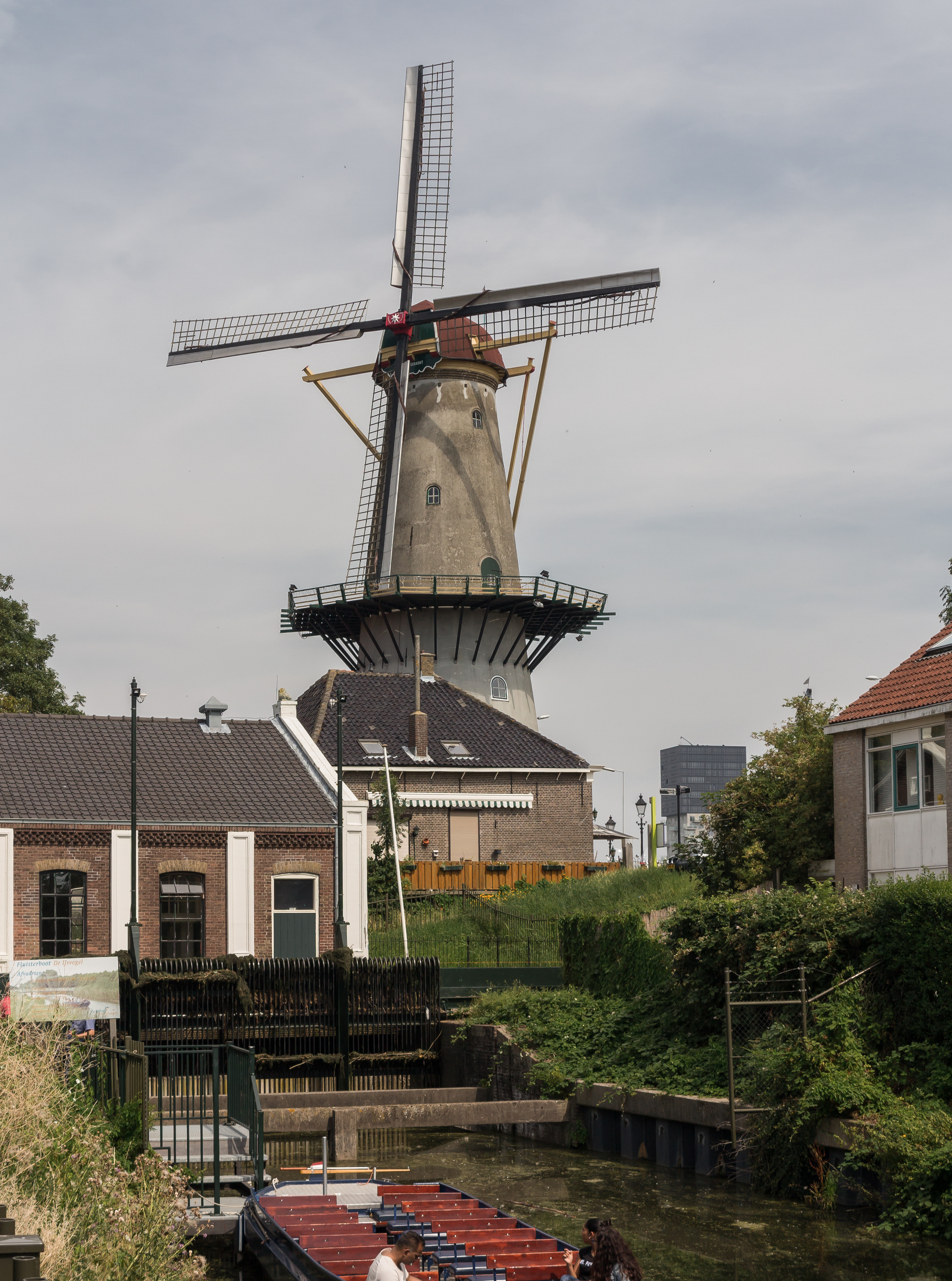 Spijkenisse, windmill: korenmolen Nooit Gedacht